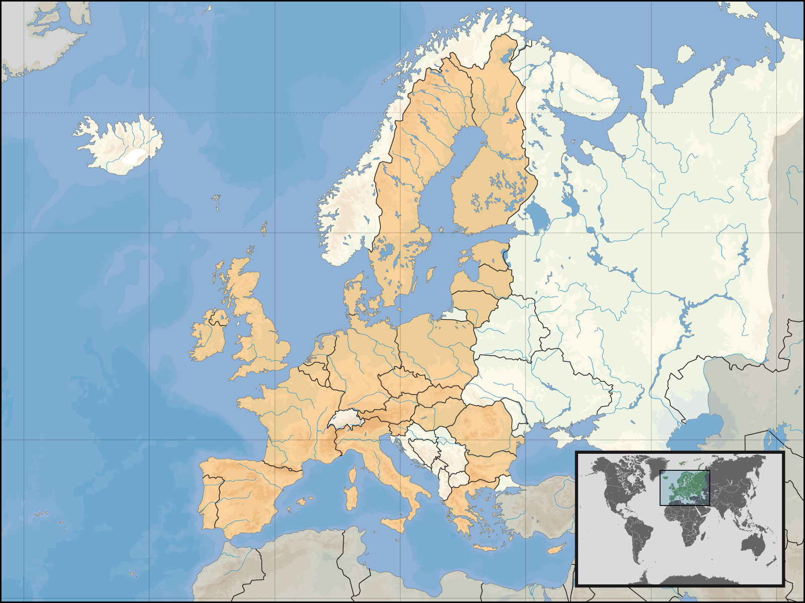 Location the European Union within Europe on the 1st of January 2007.